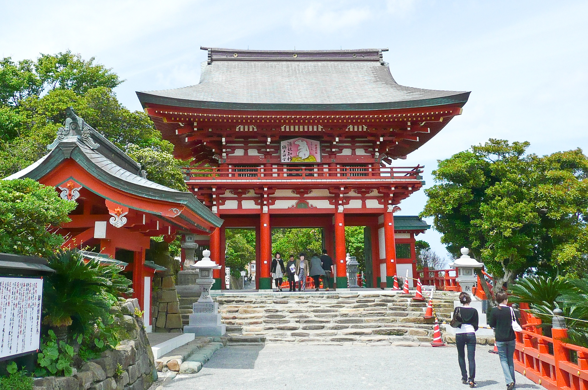 Udo Jingu Roumon (Nichinan City, Miyazaki, Japan)